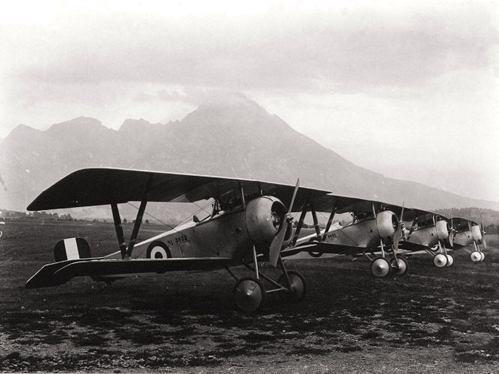 Nieuport Ni.17 unknown unit and airfield